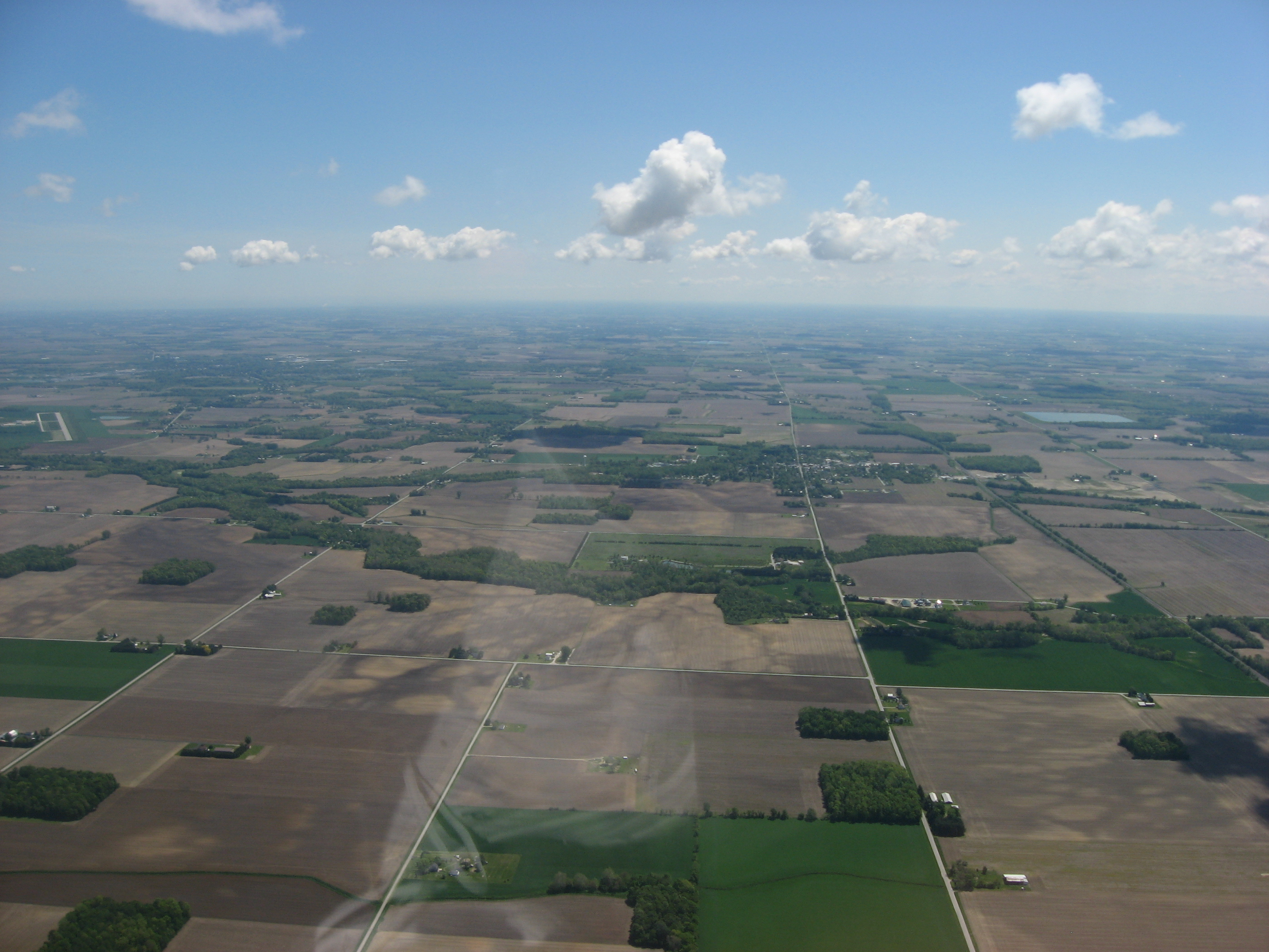 The village of Green Springs, located on the border between Sandusky and Seneca counties in the U.S. state of Ohio. The Sandusky County Regional Airport is visible on the far left. Picture taken from a Diamond Eclipse light airplane at an altitude of 3,550 feet MSL and a bearing of approximately 90º.